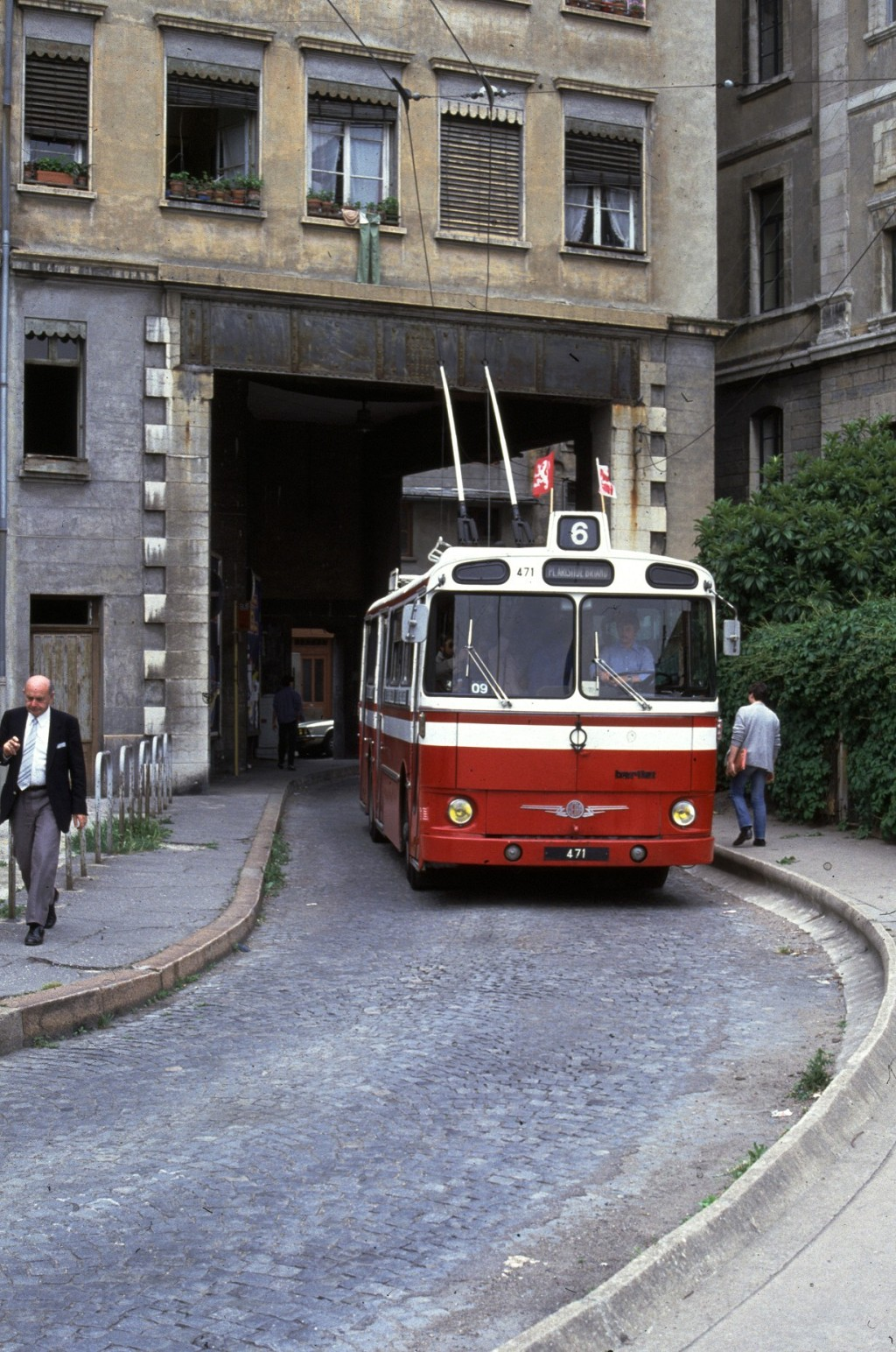 These special short-length Berliet-Vetras were reserved for the notorious line 6. They were replaced by Swiss-built MAN/Hess trolleys, because no French manufacturer produced a chassis short enough. 471 is seen on the passage between Rue Neyret and Rue des Tables Claudiennes. There's a huge great Roman amphitheatre right behind where I was stood, which I don't remember at all!